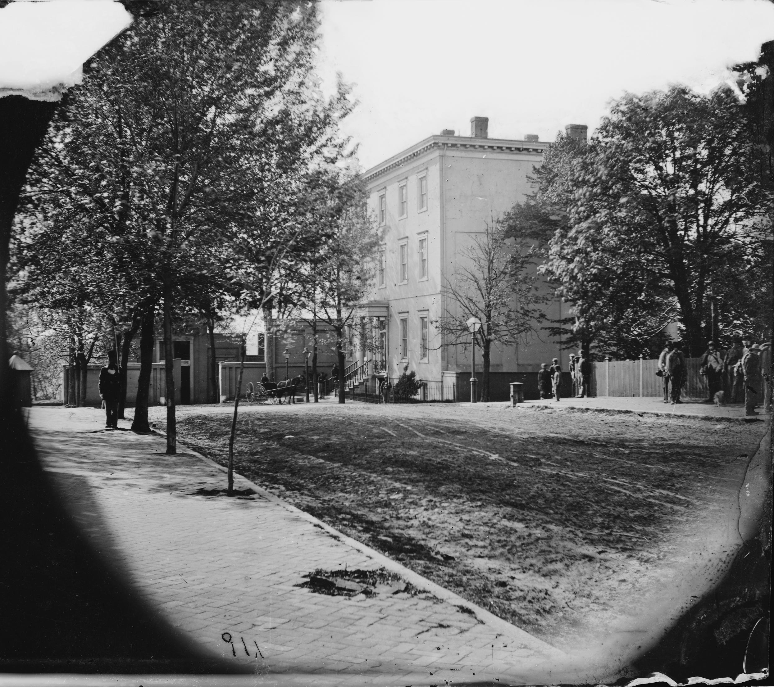 White House of the Confederacy, 1201 East Clay Street, Richmond, Virginia, April 1865